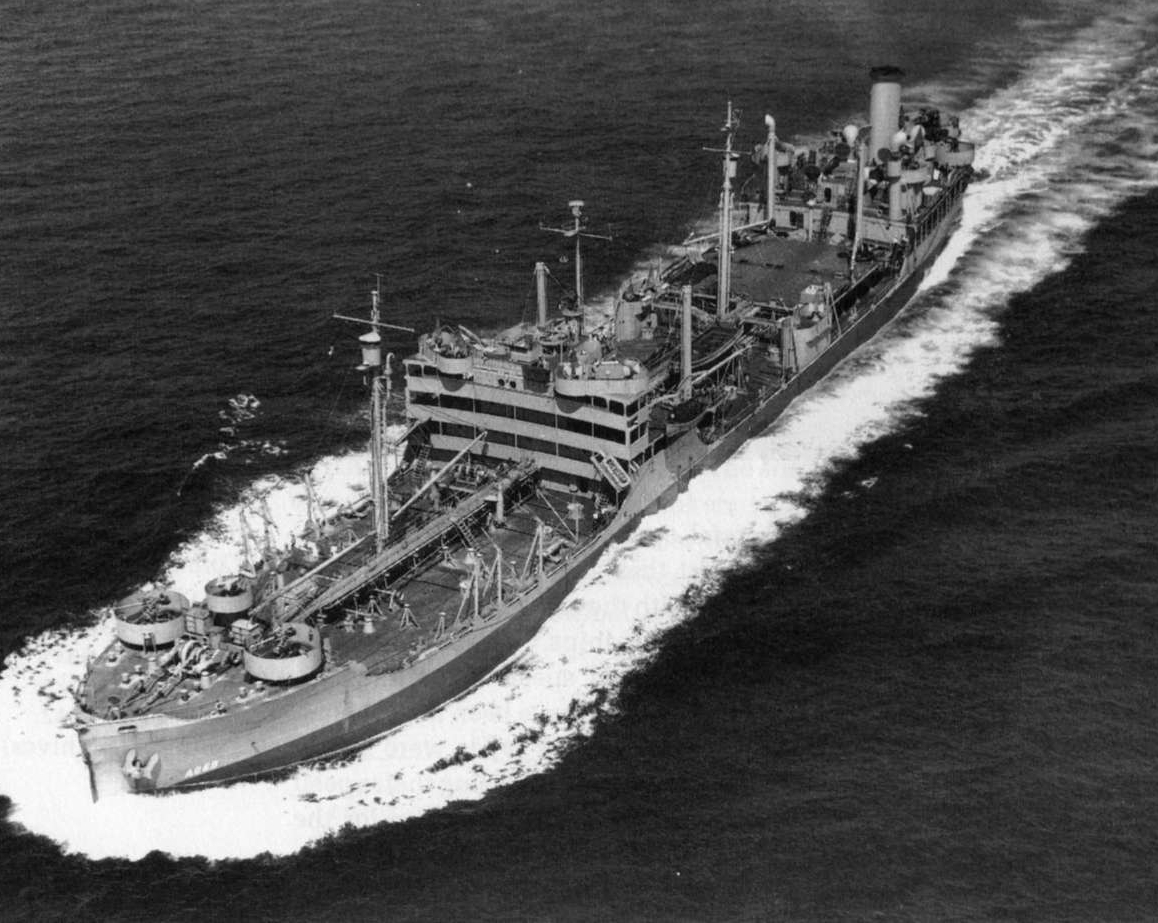 The U.S. Navy fleet oiler USS Chiwawa (AO-68) underway, circa in 1943.